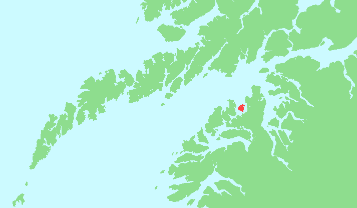 Locator map of Tannøya, Nordland, Norway